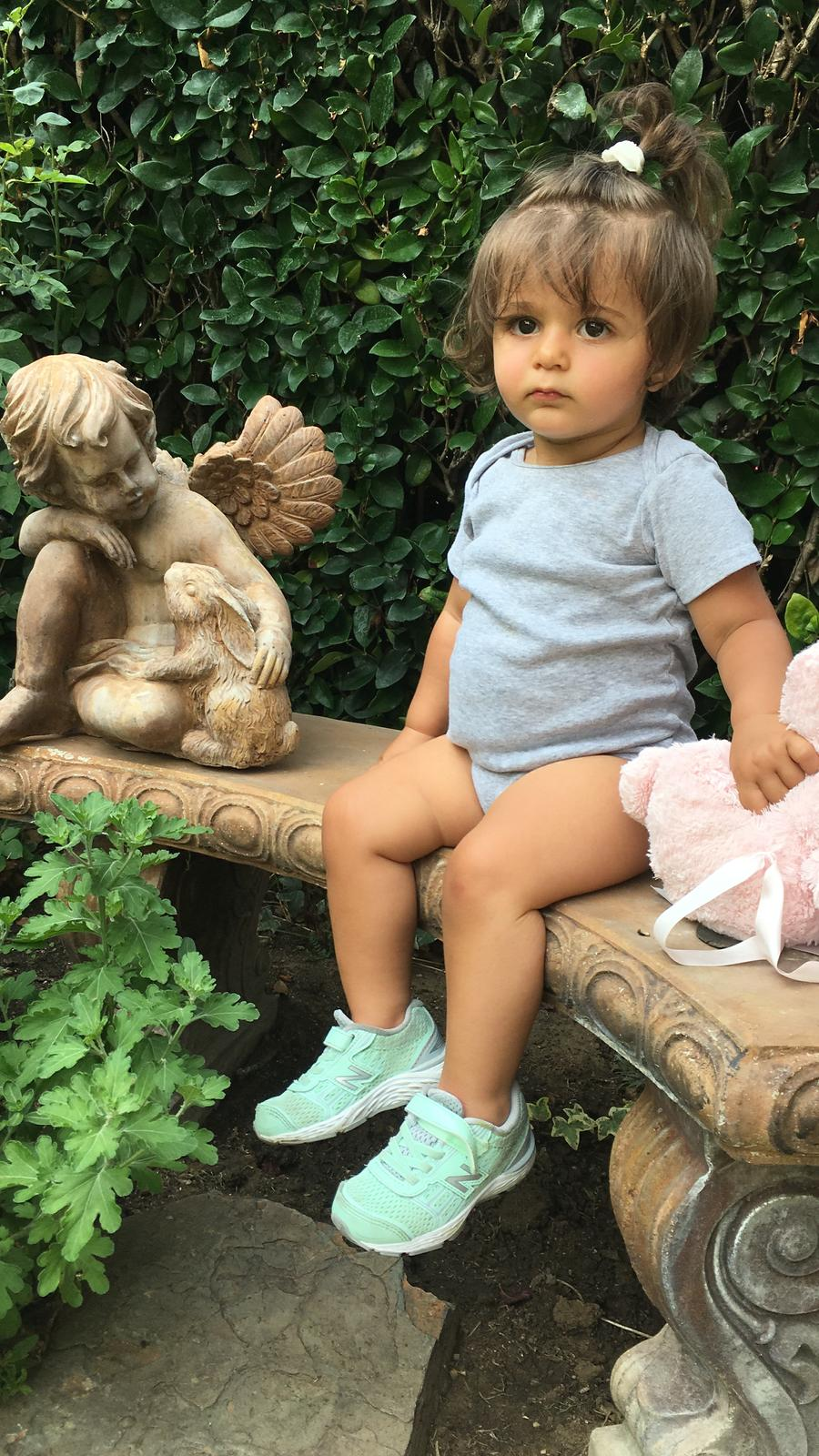 Toddler sitting on a bench